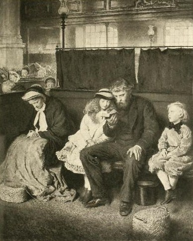 Philip in Church (b/w reproduction of original watercolour)